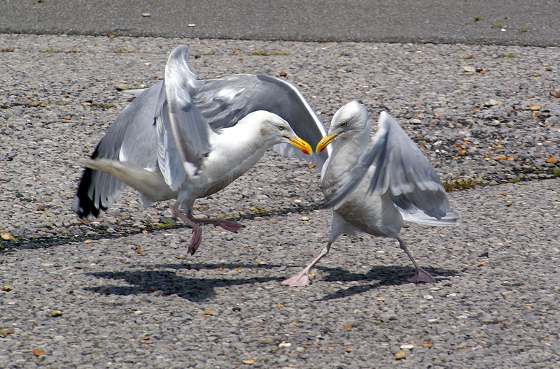 Two adult Herring Gulls (Larus argentatus) fighting. Near Ashford, Kent, UK.